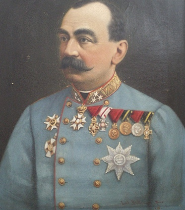 Emanuel baron von Merta